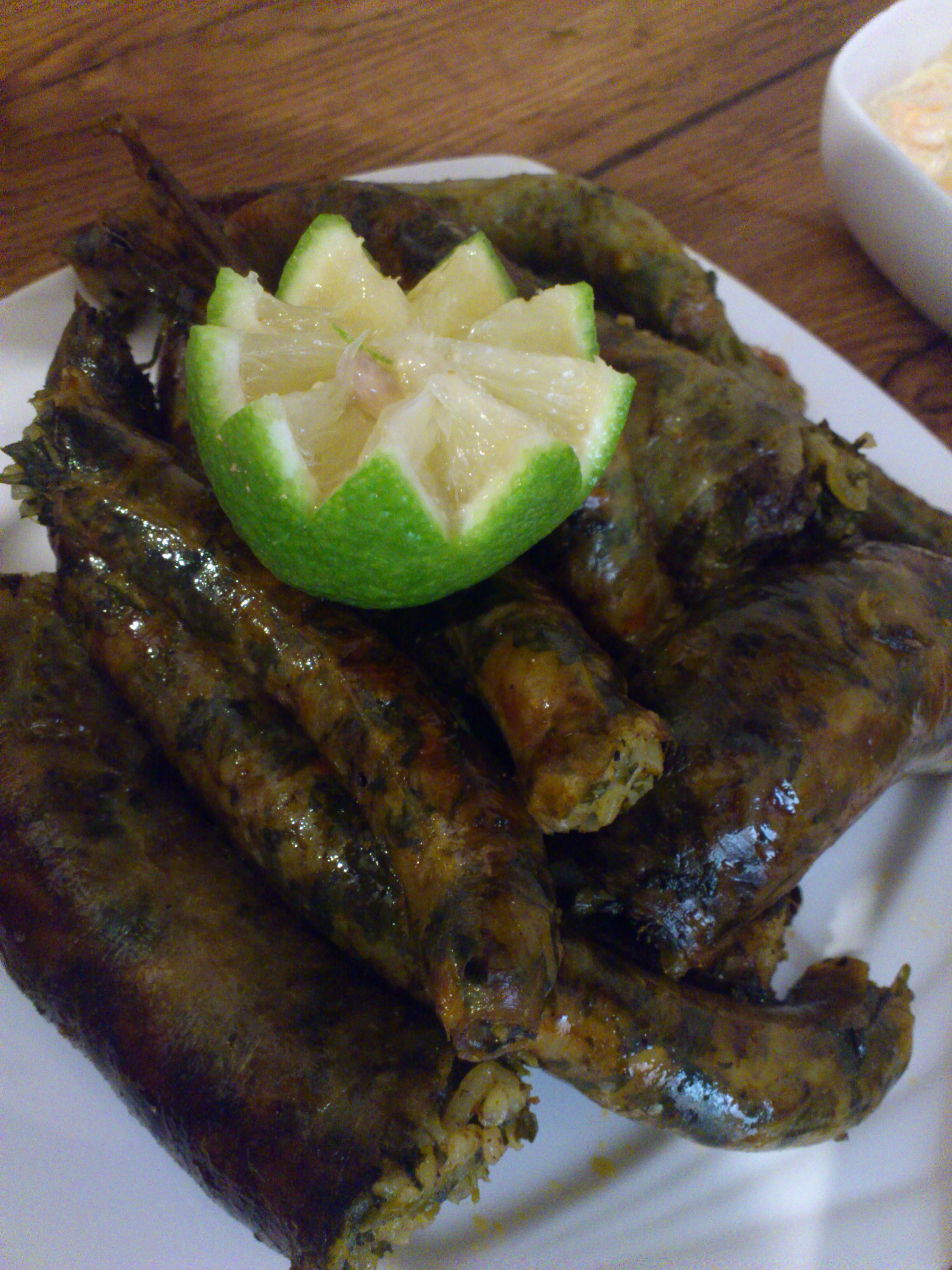 osban traditional libyan meal consisted of sheep gut stuffed with rice meat liver herbs spices and tomatoe sauce, usually introduced with rice which cooked on osban broth ,this meal done in celebrations like marriage ,having a child and also adha eid This is an image of food from Libyan Arab Jamahiriya